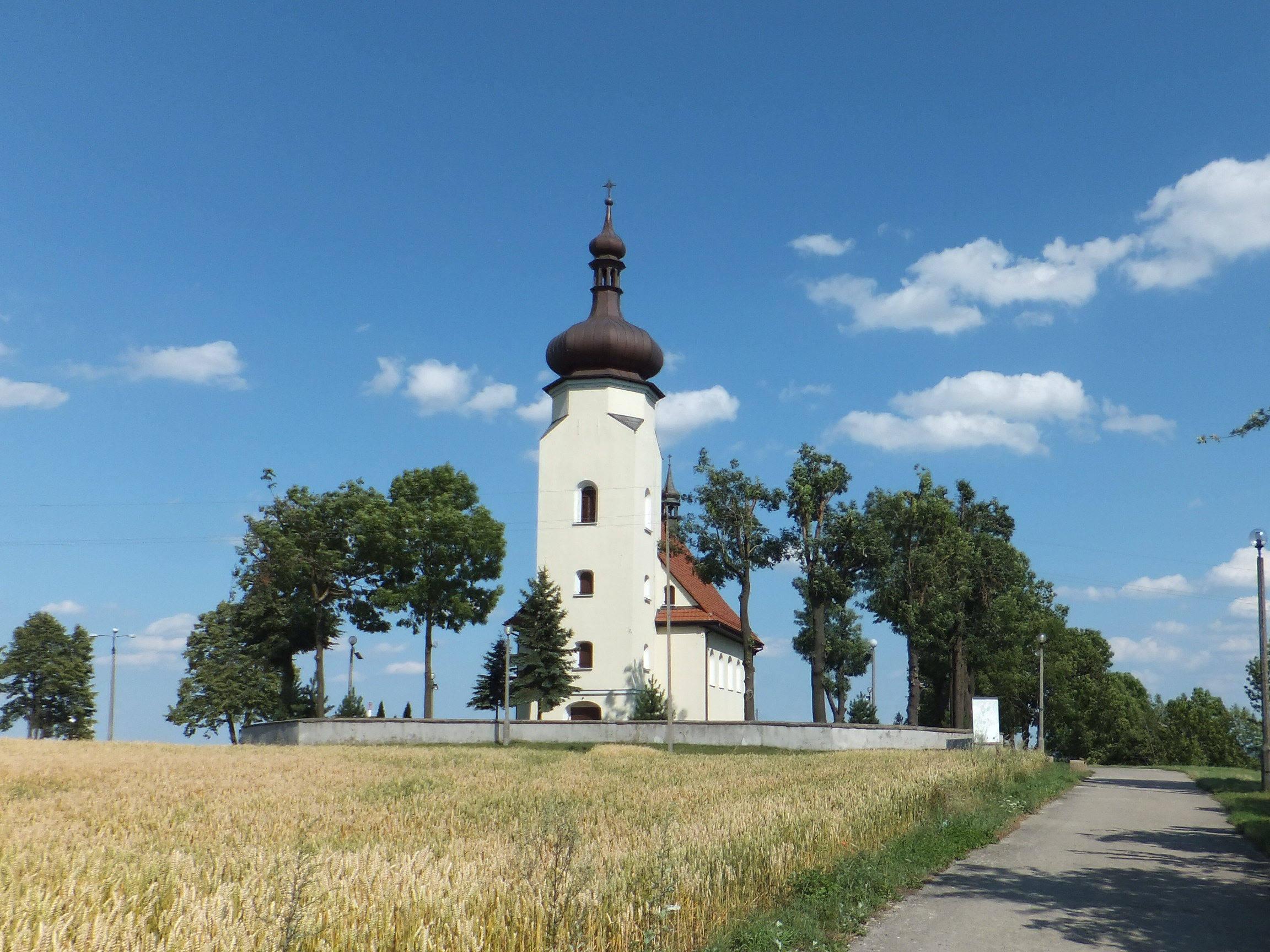 Church of Saint Clemens in Lędziny (Poland) from the years 1769-1772, on the hill Klimont.